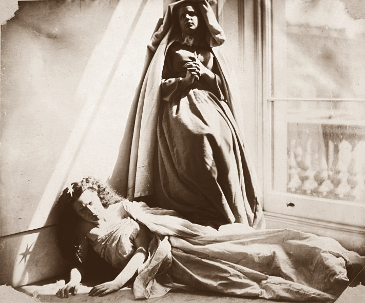 Template:Dt